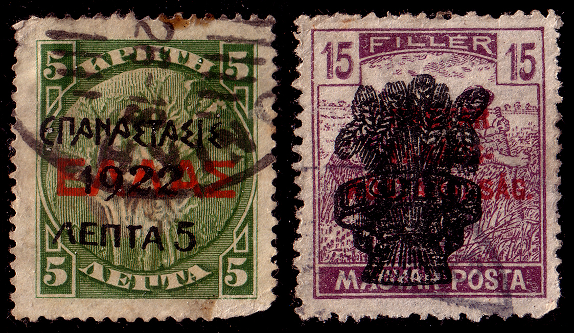 Overprinted postage stamps of Crete (1922) and Hungary (1919)